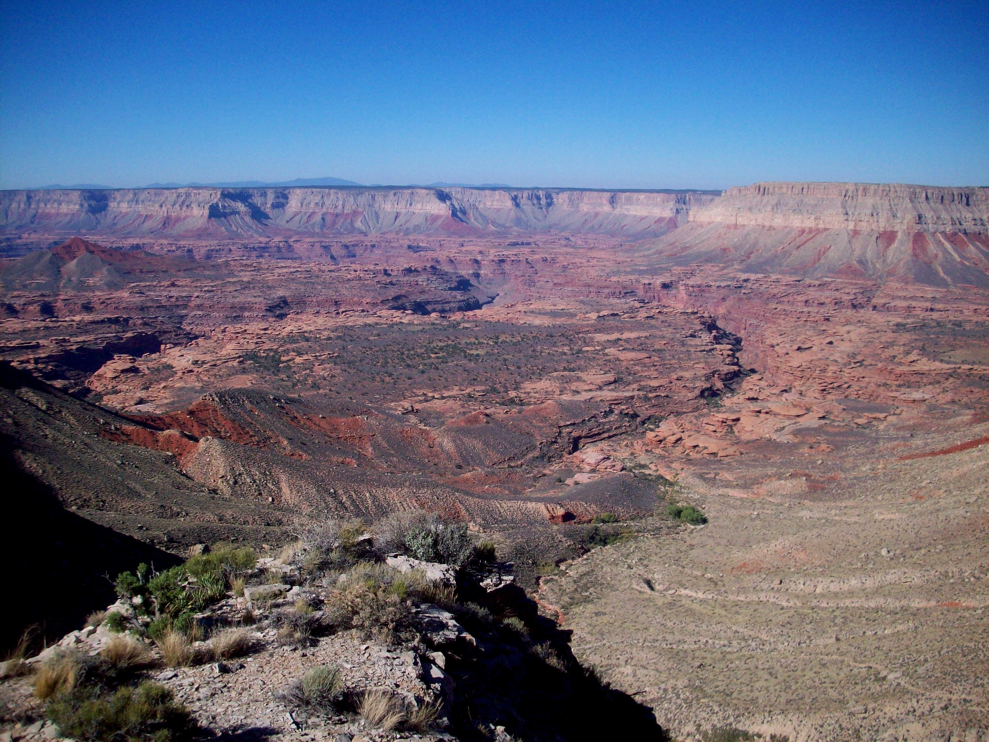 The Kanab Creek Trail, the far canyon is Kanab Canyon, while the closer canyons are tributaries.